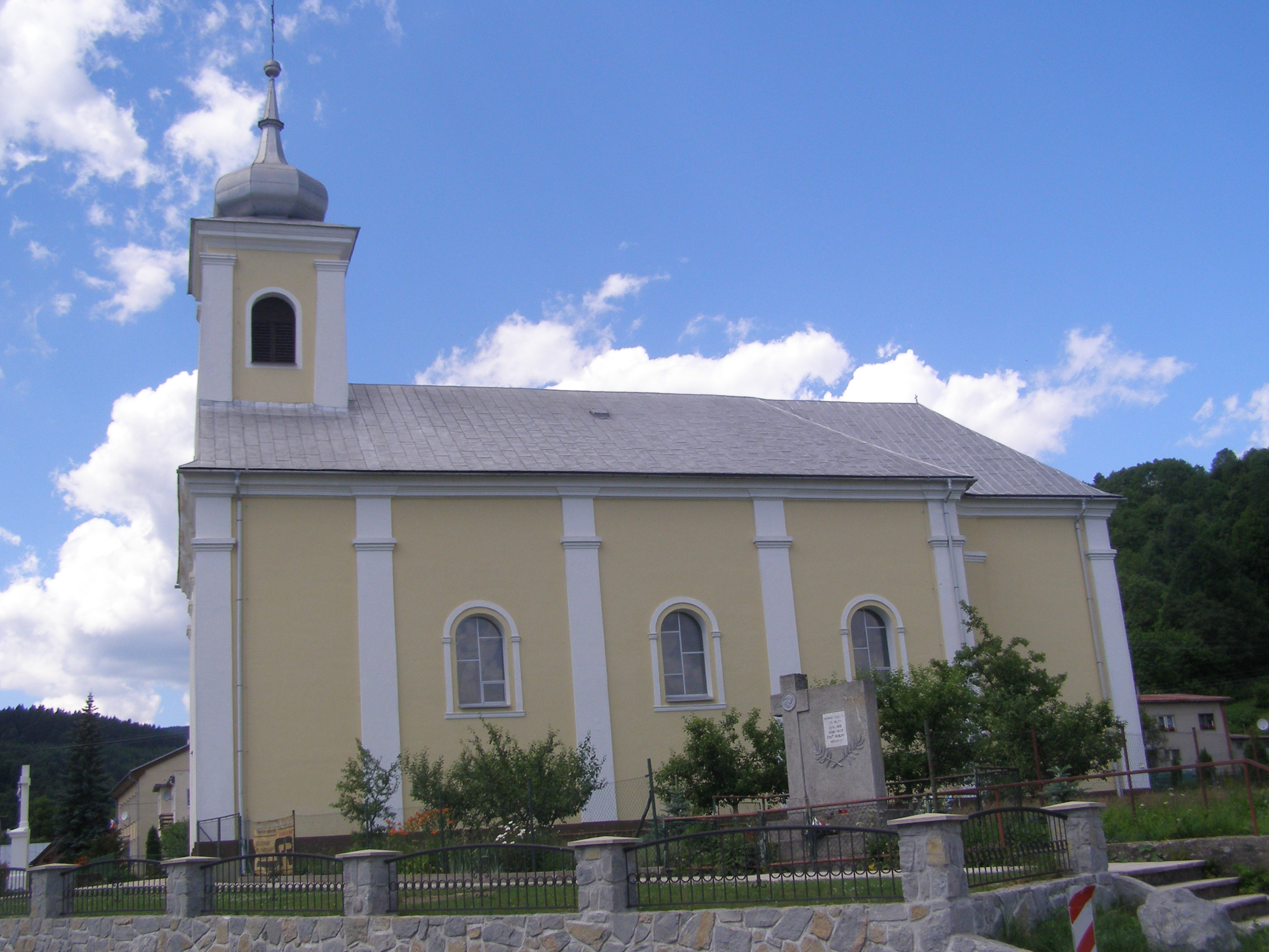 Roman Catholic Church in Petrovice, Bytča District, Slovakia